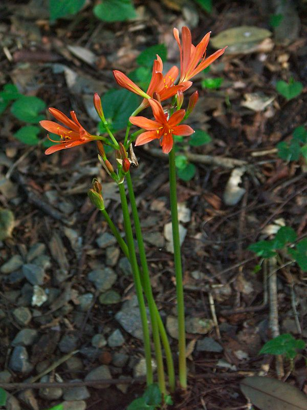 Flower of "Kitsune-no-kamisori" Place: Higashitakane Shinrin-koen (forest park), Shiboku-honcho Miyamae Kawasaki Kanagawa, Japan.